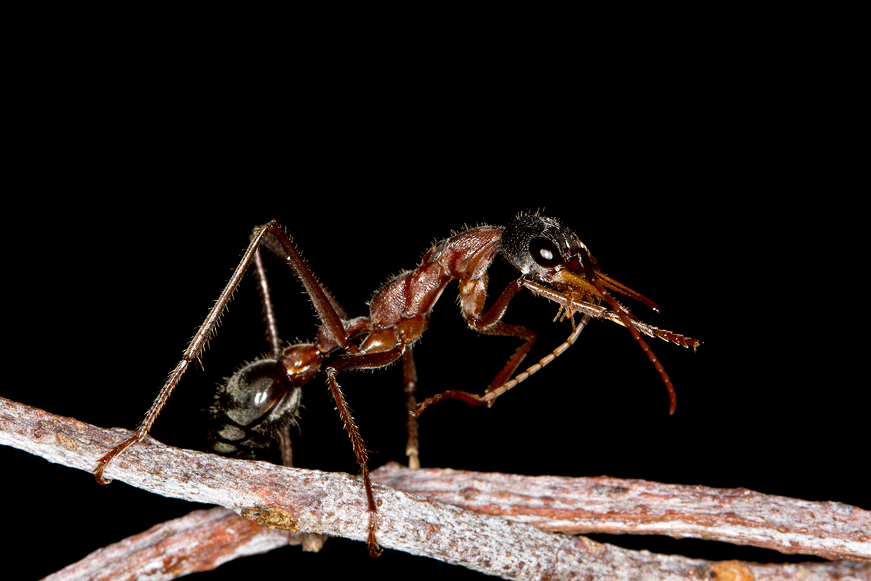 Black-headed bull ant grooming, from Strangways Victoria